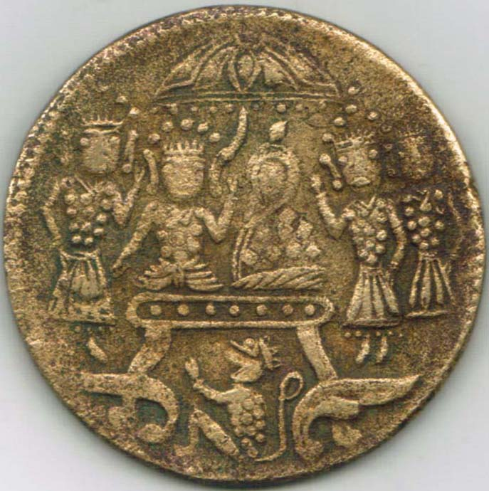 Ancient coin founded in Dadeldhura.